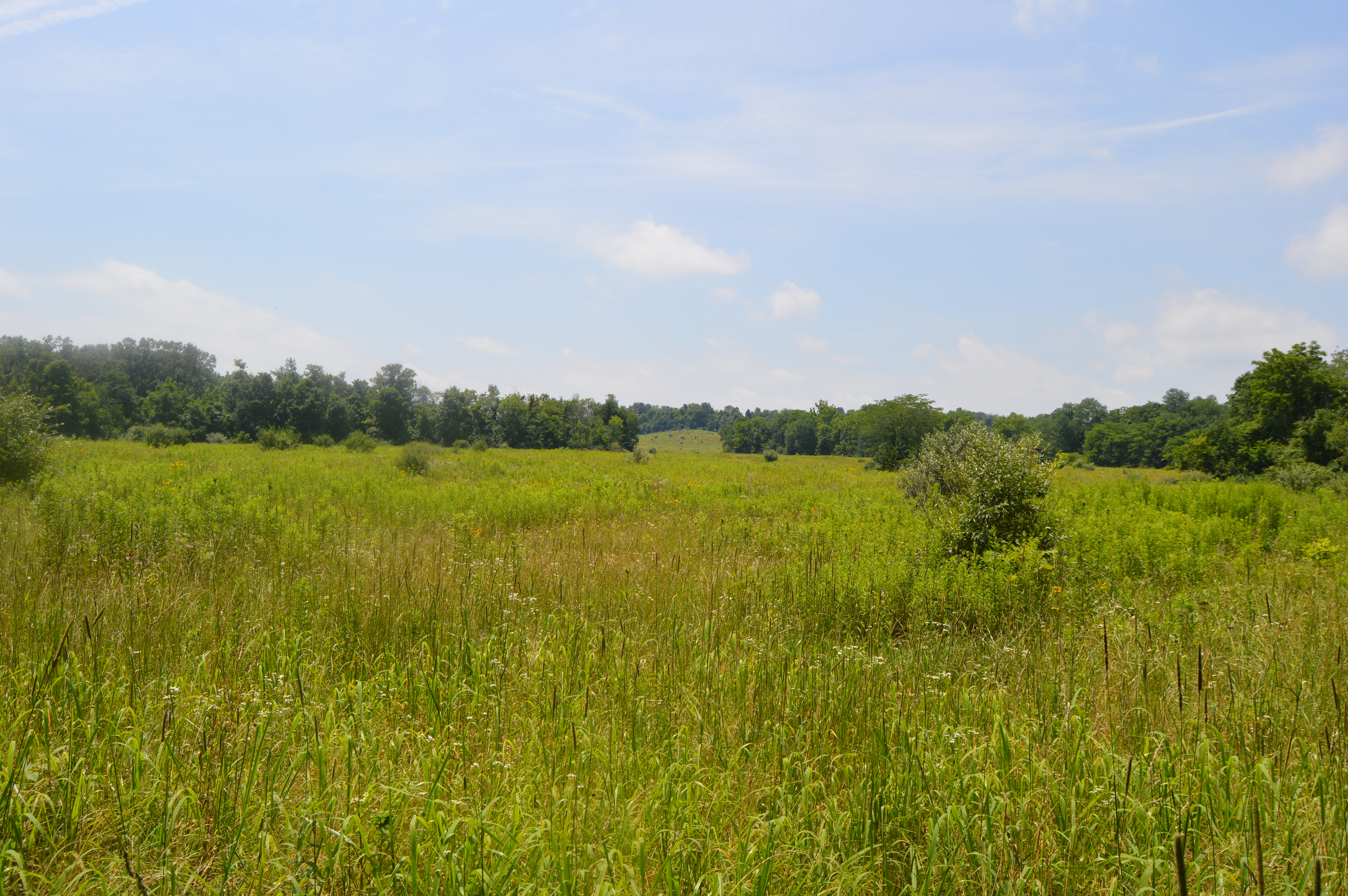 Looking west from the edge of the forest at Rocky Fork State Park in Marshall Township, Highland County, Ohio, United States. This area is part of the Rocky Fork Park Site, a group of prehistoric earthworks that are an archaeological site and have been listed on the National Register of Historic Places.